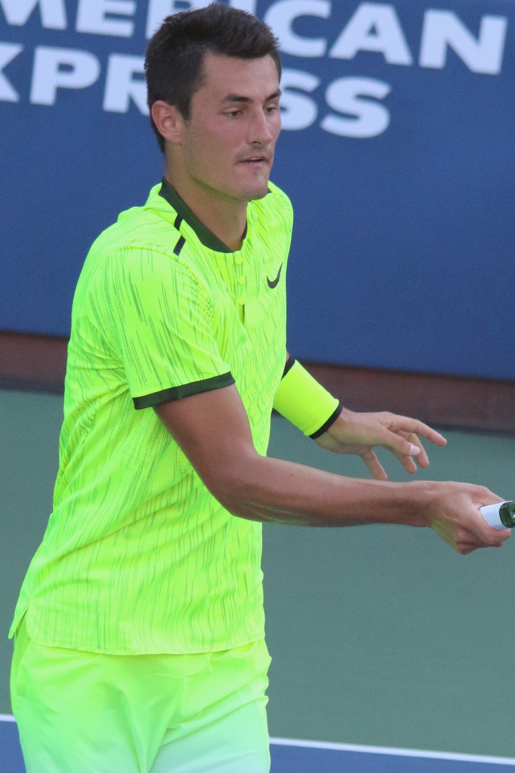 Tomic US16 (14)